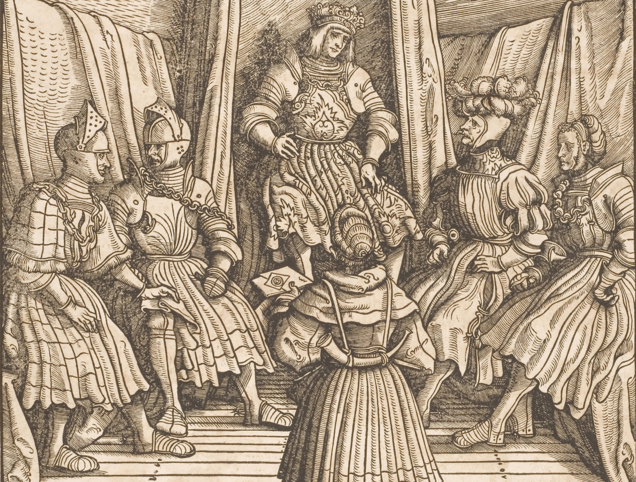 See title